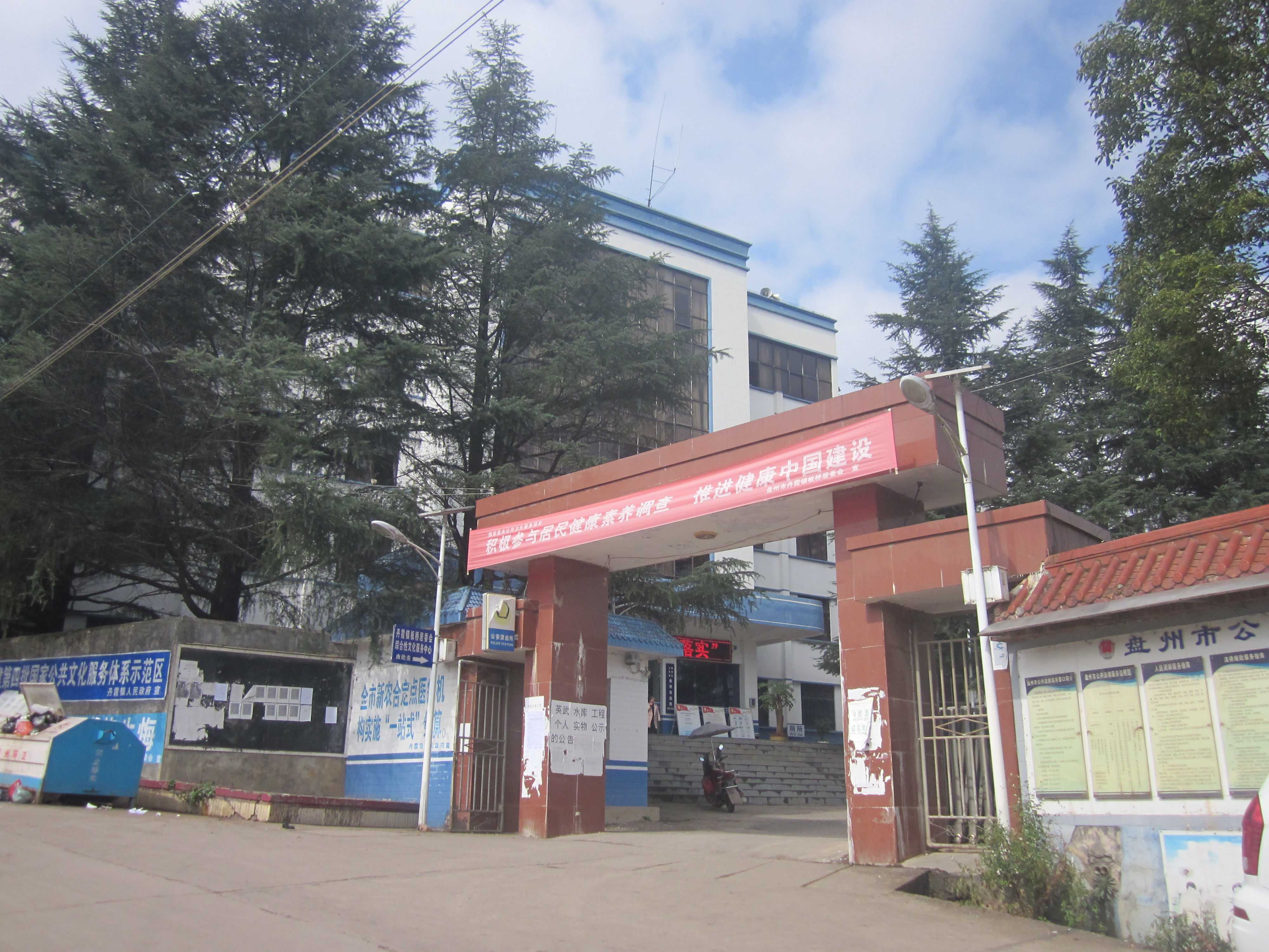 Residential buildings in Danxia Town, Panzhou, Guizhou, China, on 6 December 2019.